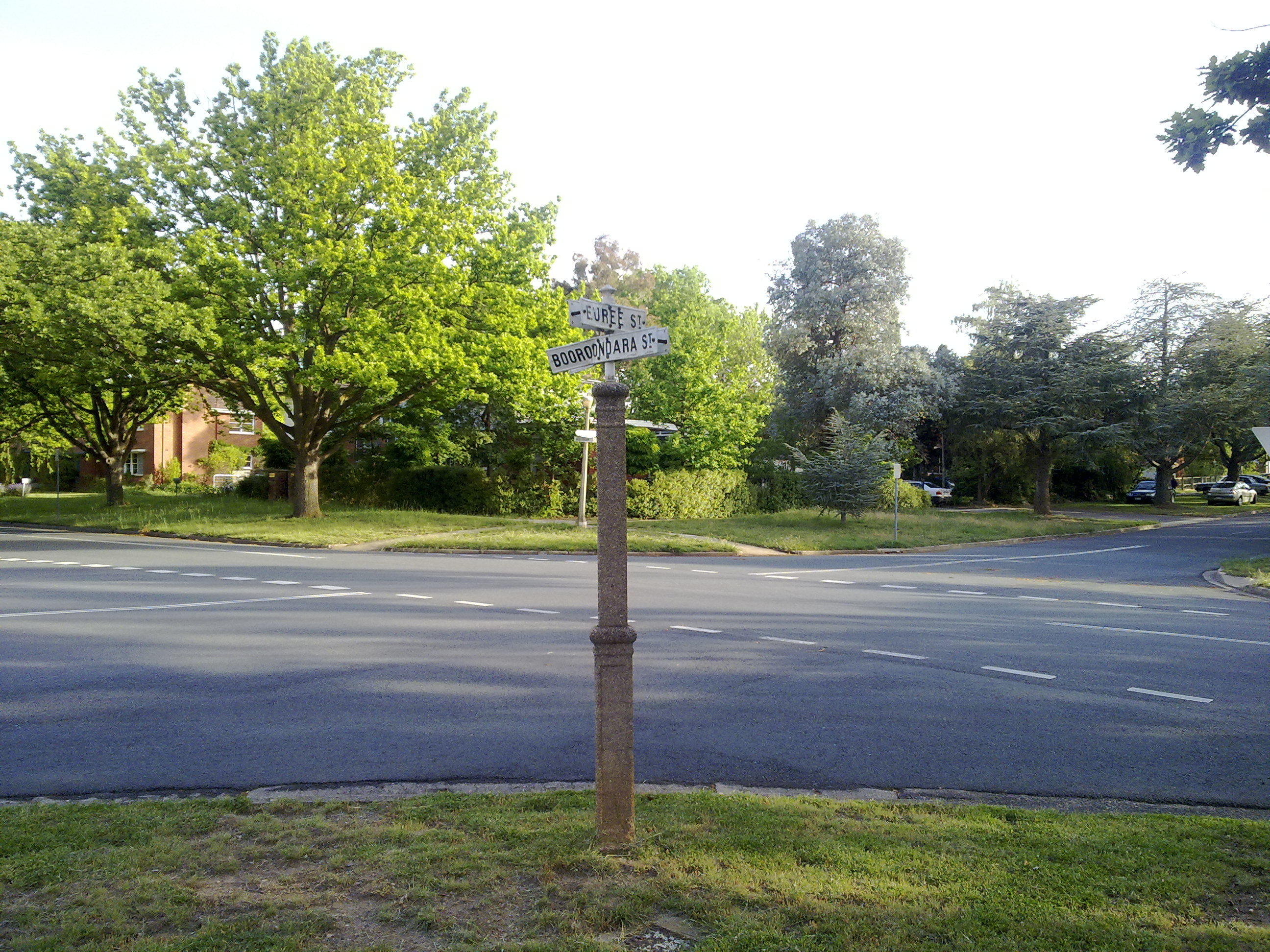 The intersection of Euree and Booroondara Streets, Reid, ACT.